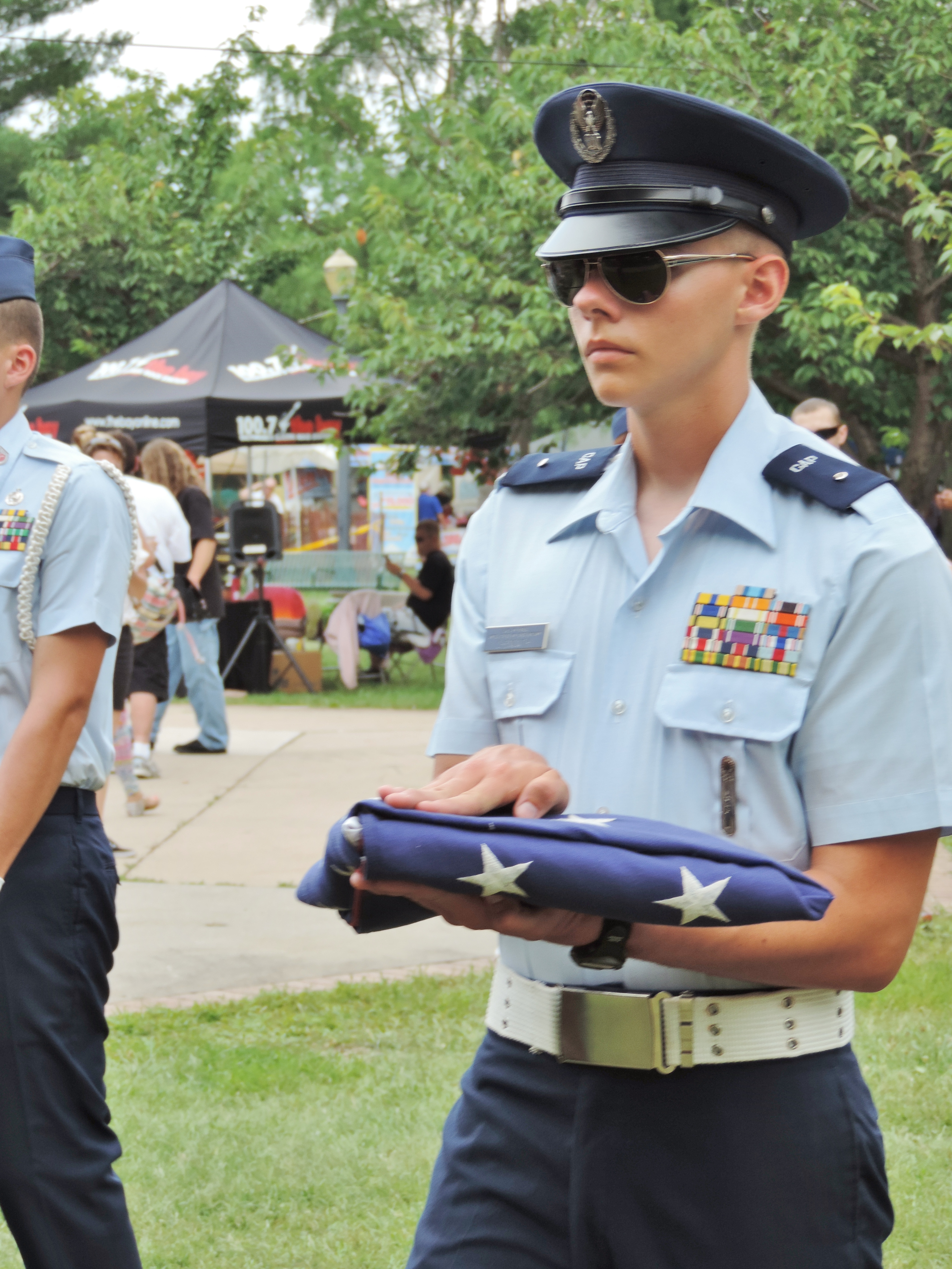 A Civil Air Patrol Maryland Wing cadet holds the American flag during a ceremony at the 2013 Dundalk Heritage Fair in Maryland. The annual, summer holiday time, Heritage Fair is a World Class Venue for outdoor concerts; it also has - all day for 3 days - great: fun, food, crafts shopping, community and local history booths, some carnival rides and games, and more. Go early and stay late, in tree shaded and grass carpeted Dundalk Heritage Park.